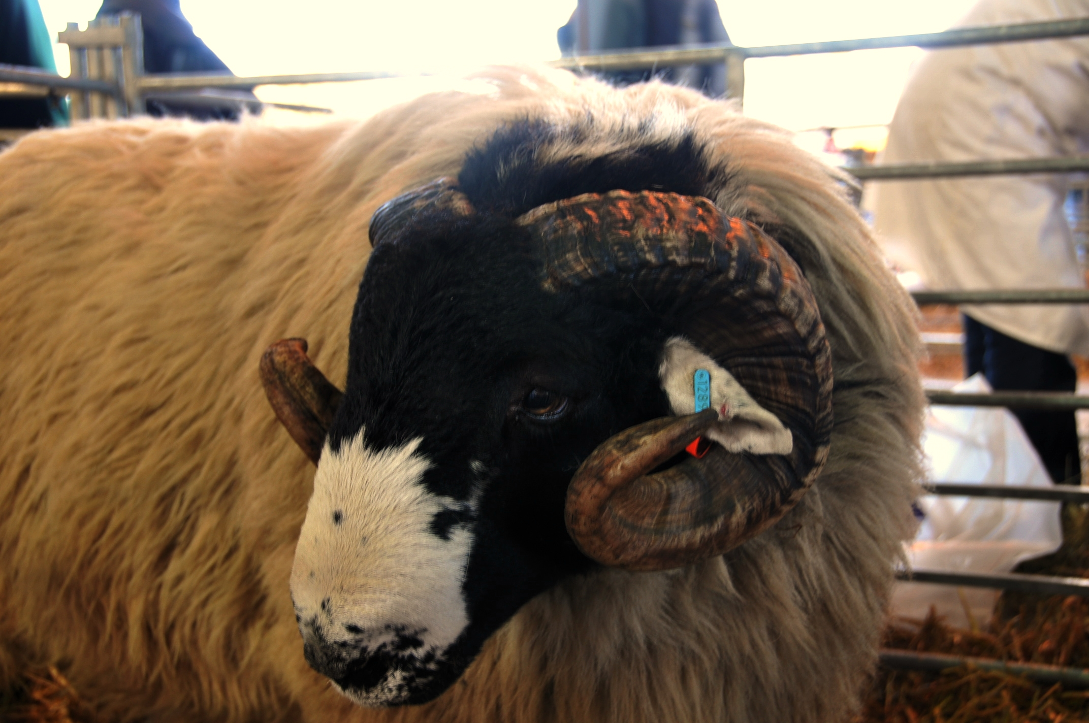 A ram at the Peteborough livestock show.